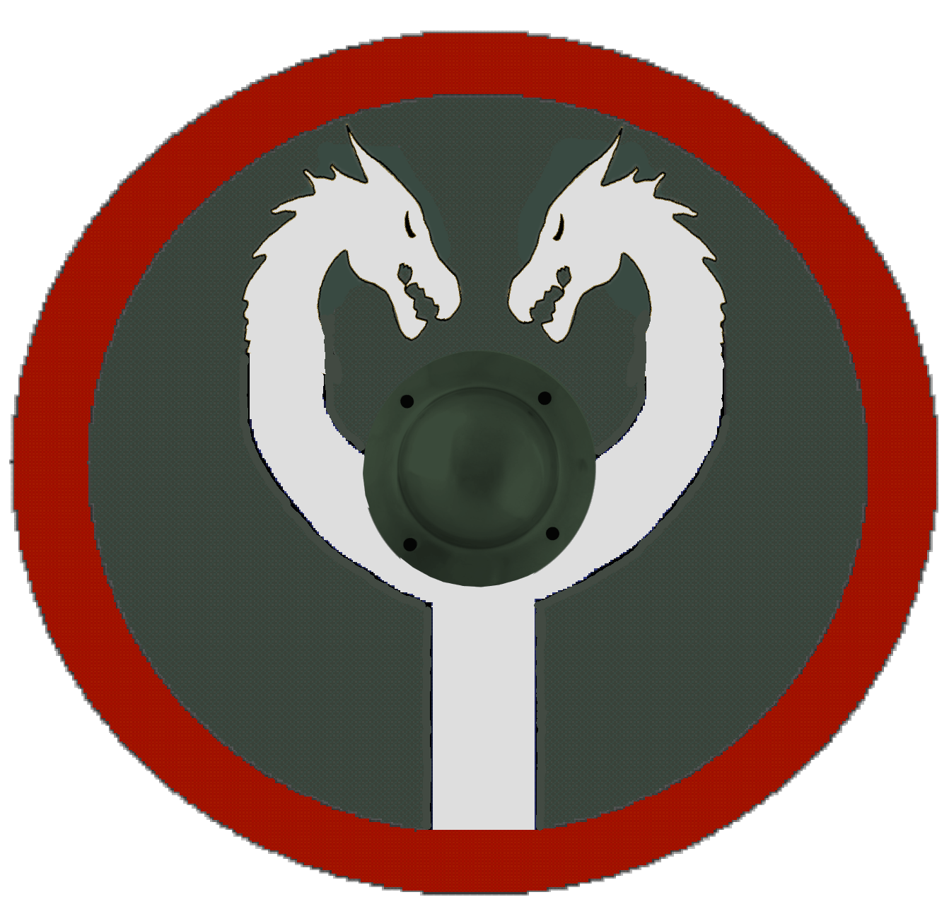 Shield pattern o.t Equites Brachiati seniores, listed as the third of the vexillationes palatinae in the Magister Equitum's cavalry roster; assigned to Magister Peditum's Italian command.